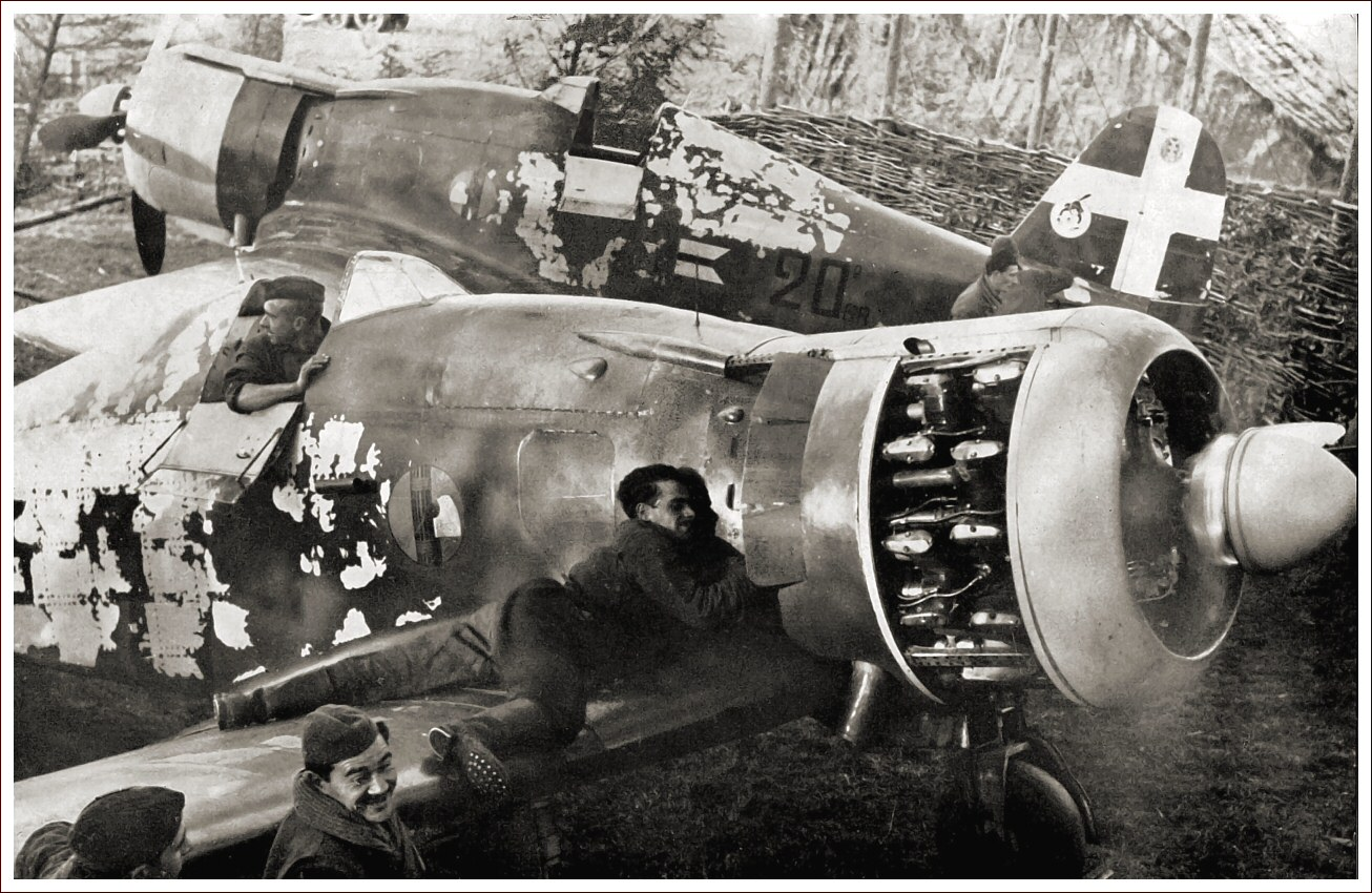 Ursel, Belgium, last 1940: Corpo Aereo Italiano (C.A.I.), support personnel of Regia Aeronautica to work on a pair of fighter Fiat G.50s of 20º Gruppo Caccia Terrestre (known as 20./JG 56 by Luftwaffe), 56º Stormo (20th Fighter Squadron, 56th Wing). The aircraft in the background bearing the insignia of the commander Major Mario Bonzano.